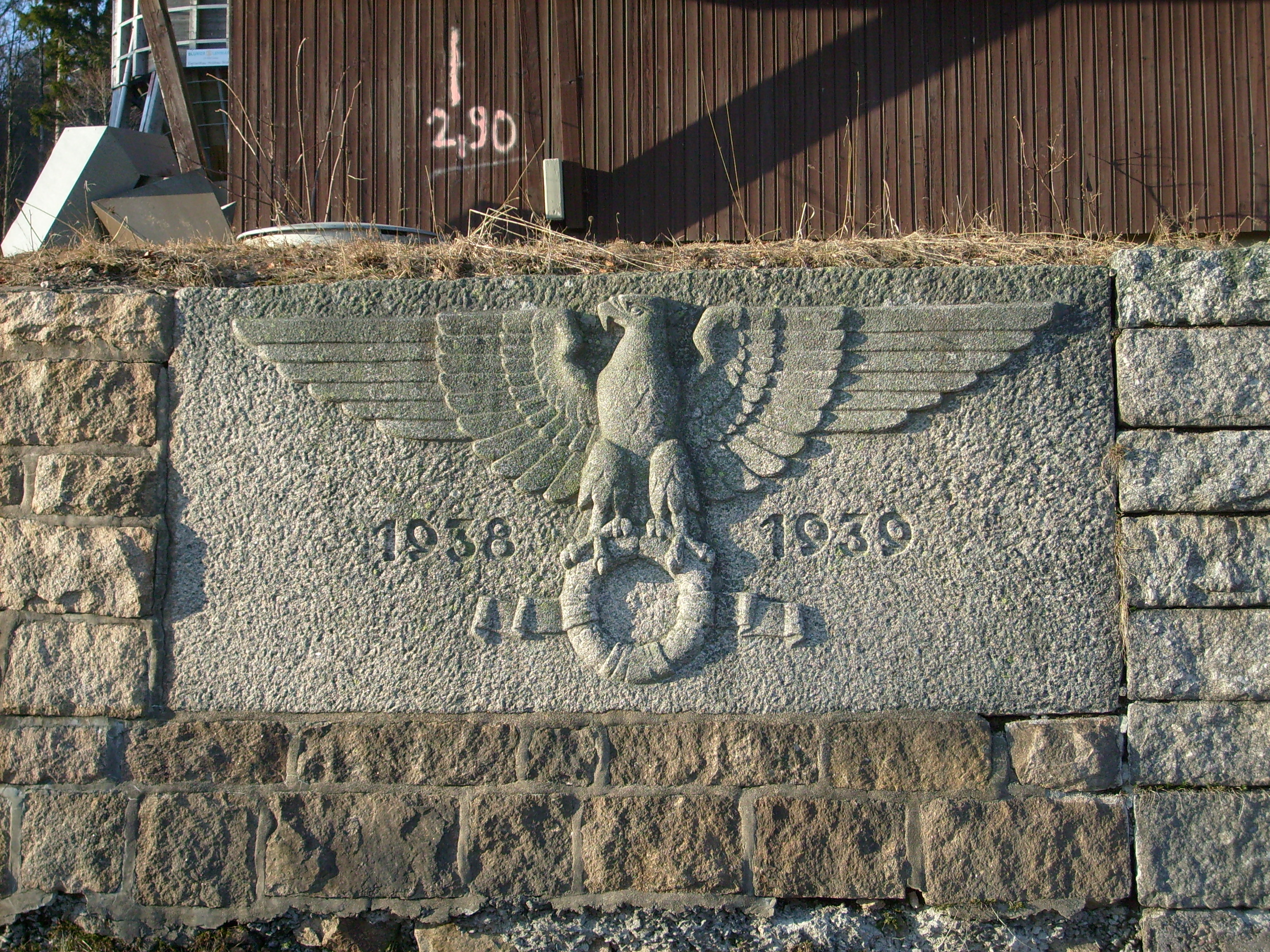 Feldberg Pass: Reichsadler on a wall commemorating the completion of a Third Reich construction project with dates 1938-1939.